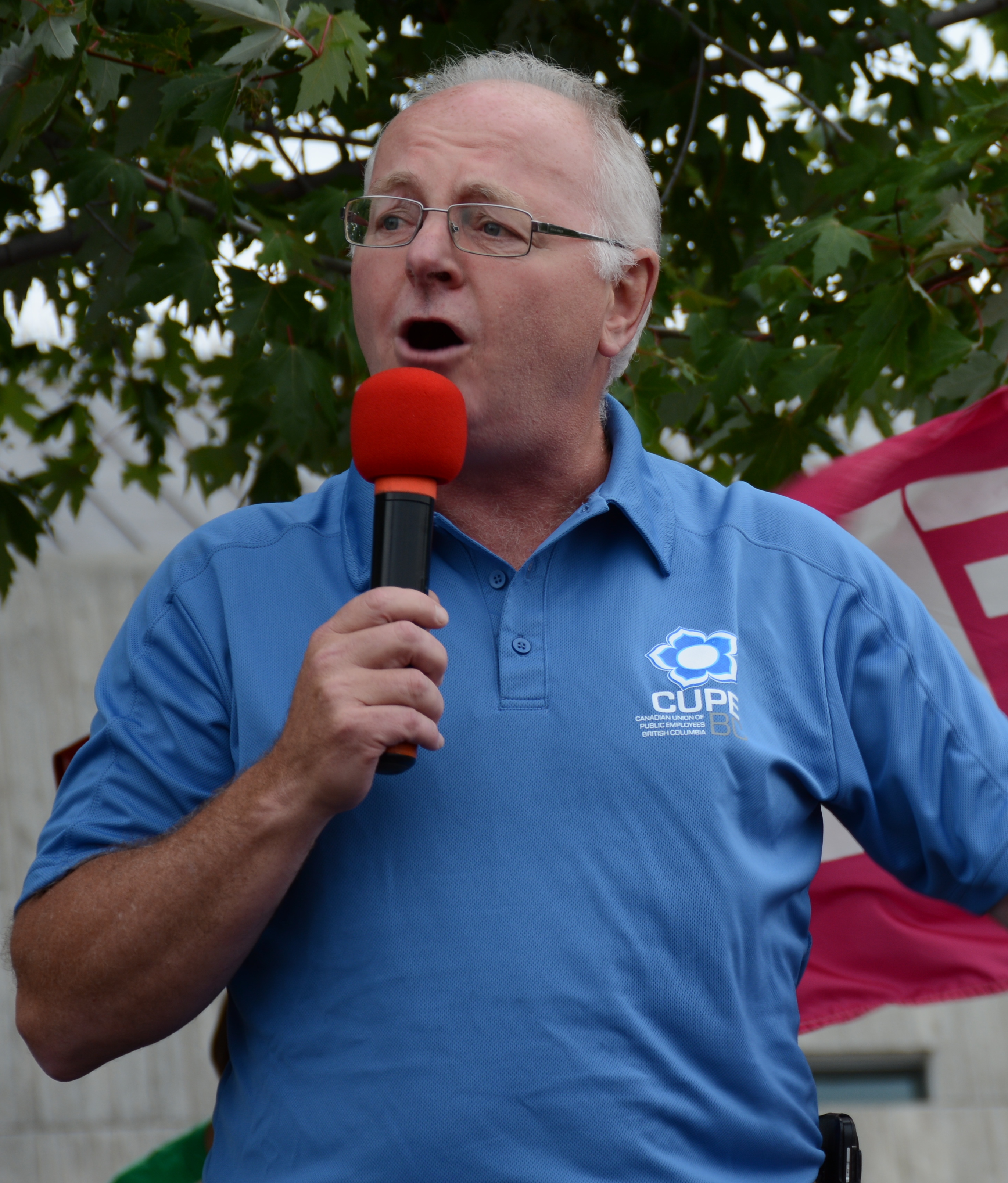 Paul Moist, CUPE National President, at Social Forum rally outside Canadian War Museum.